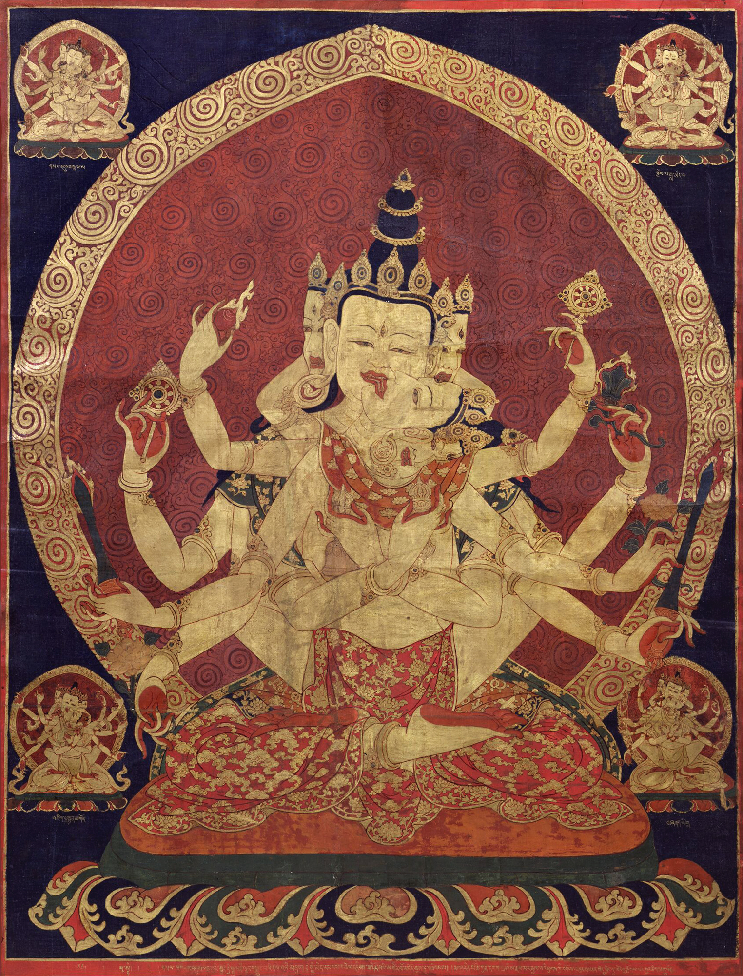 17th century Central Tibeten thanka of Guhyasamaja Akshobhyavajra, Rubin Museum of Art